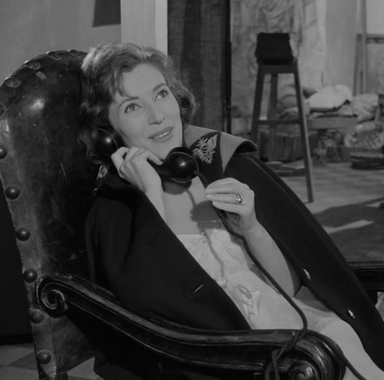 Valentina Cortese in a scene of the film Le amiche